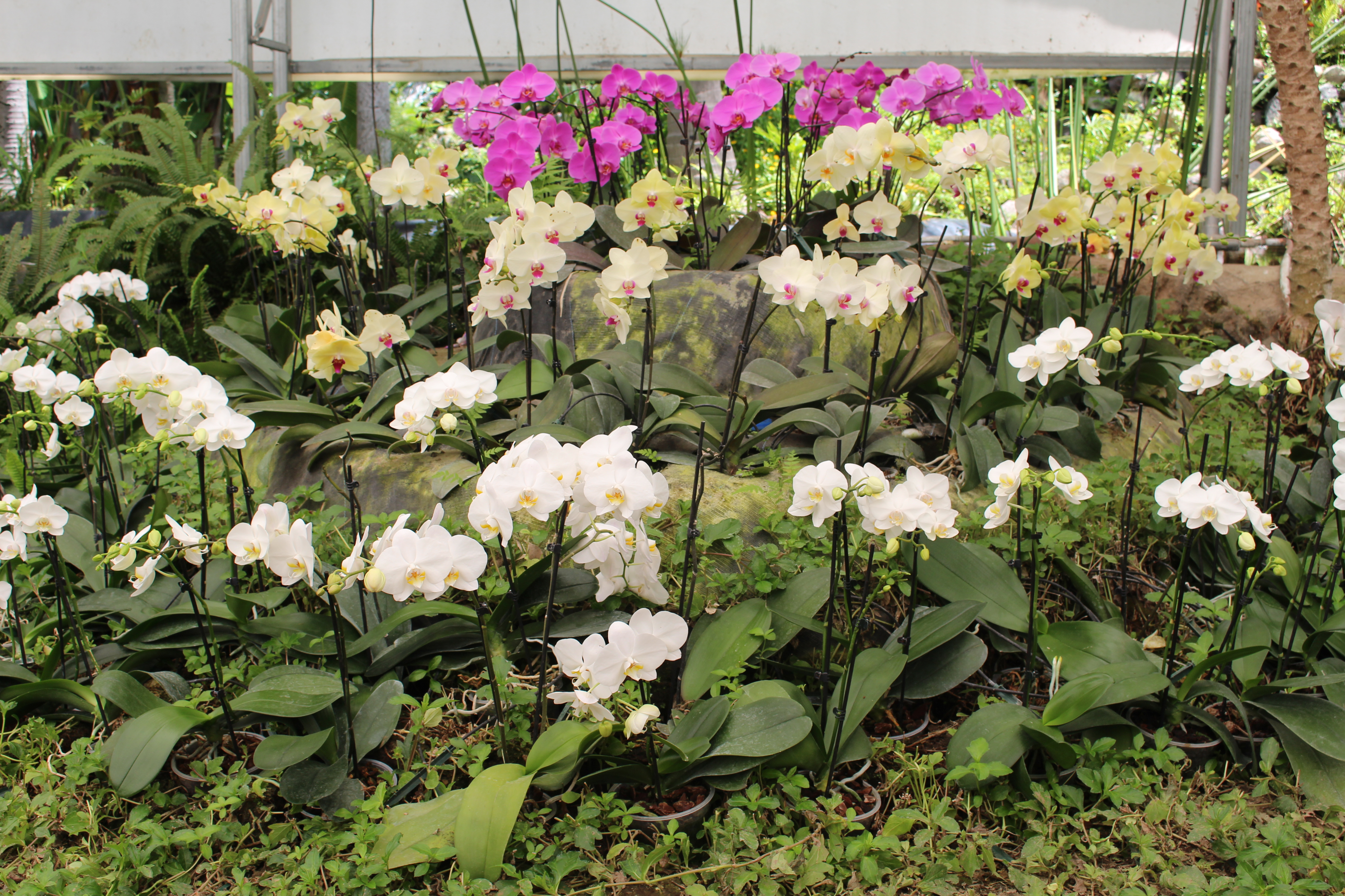 The Orchidaceae are a diverse and widespread family of flowering plants, with blooms that are often colourful and often fragrant, commonly known as the orchid family. Found at the Orchid Greenhouse in the Jardines de México, in the state of Morelos.